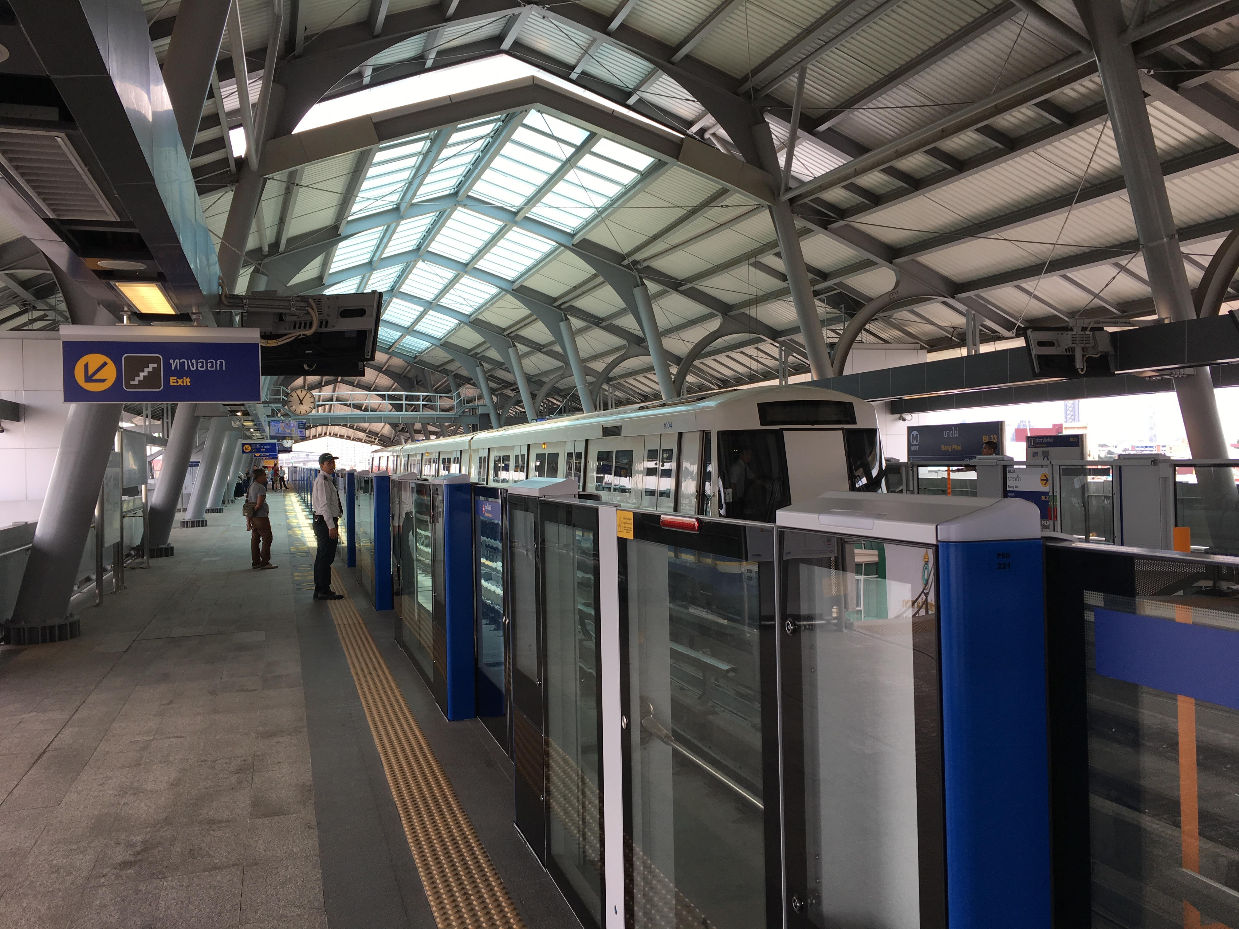 Platform level of Bang Phai MRT Station, Bangkok.